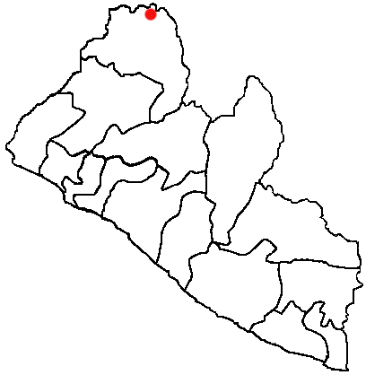 Voinjama, Liberia Location Map; created with the GIMP. Made by User:Acntx.